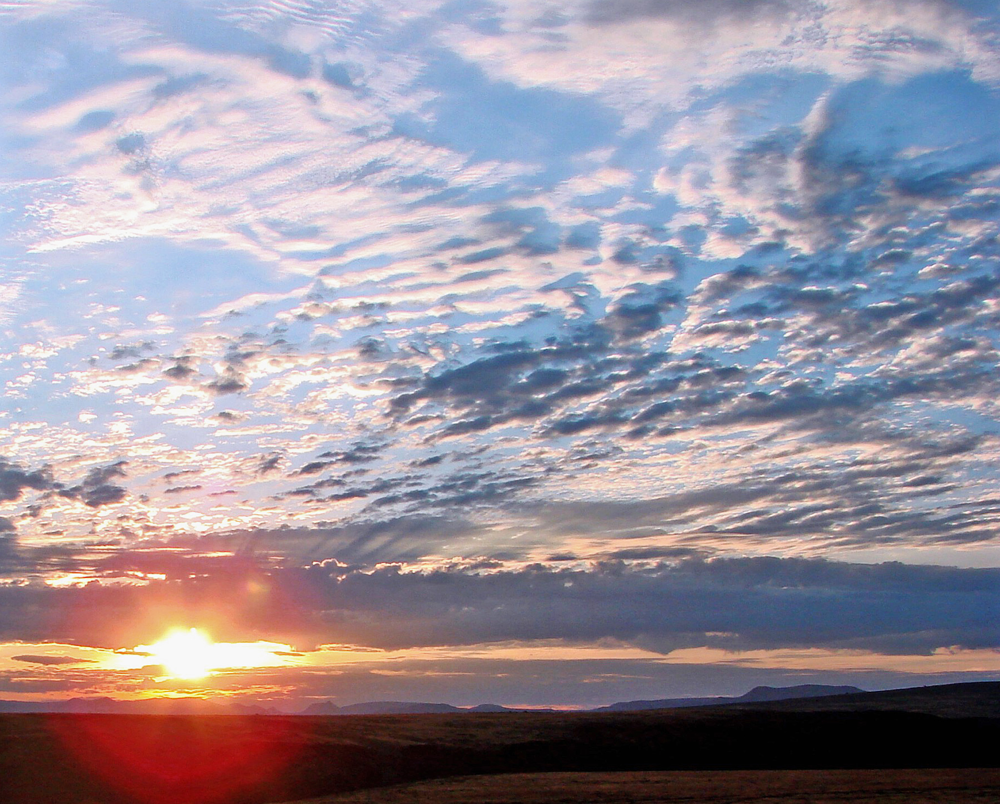 (1 in a multiple picture album) I left Sodona, AZ very early one morning while it was still dark. I got on Highway 17 and headed down to Phoenix. After some time I noticed the clouds begin to reflect light and there was a rest area in just the right place. I grabbed this picture. Nothing like a desert sunrise for drama thinks I.